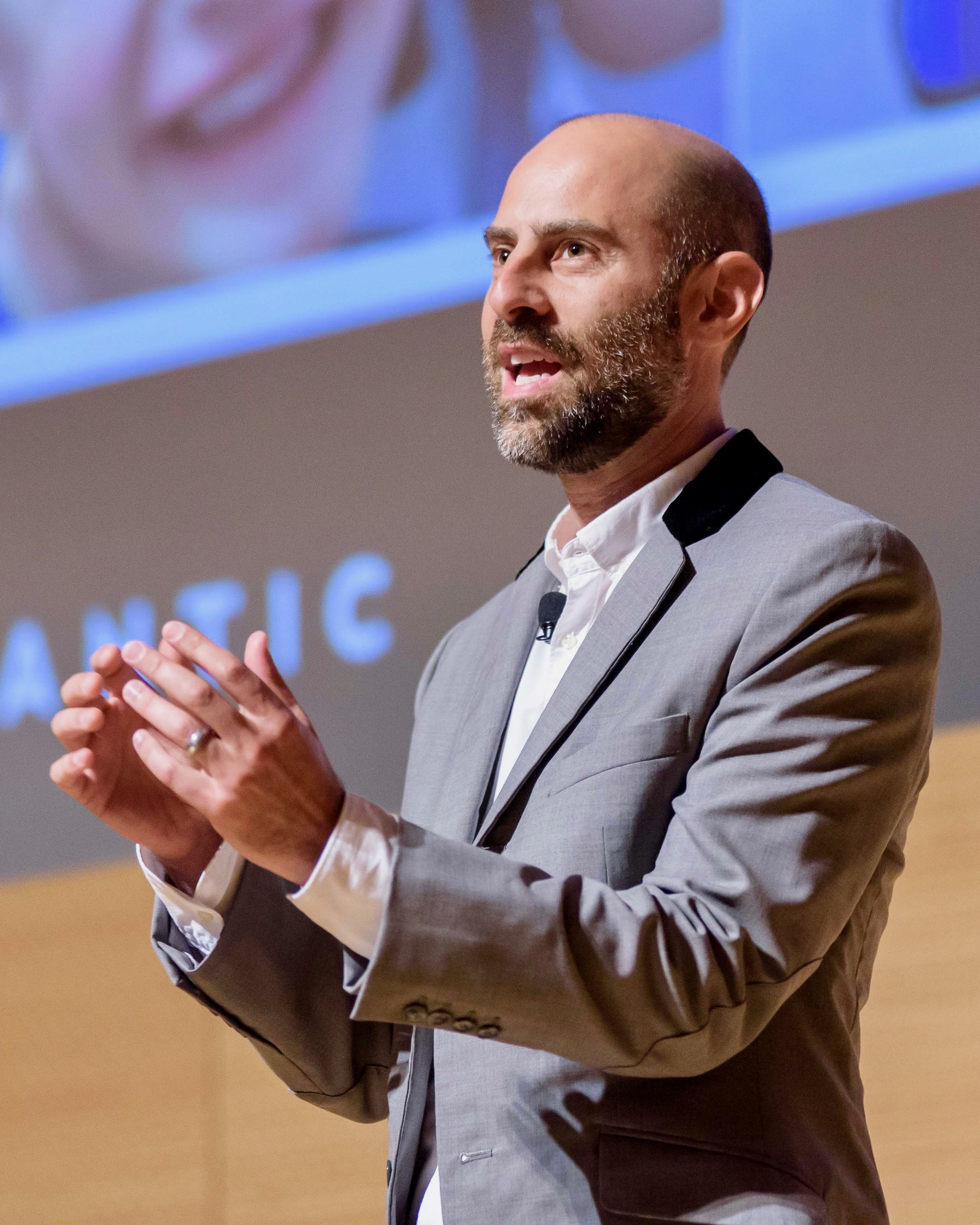 Gabriel Stricker presenting at the Games For Change Festival, New York, NY June 29, 2018